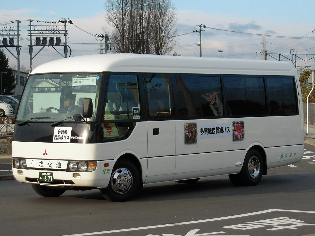 Sen-en kotsu (for Tagajo West line bus) Mitsubishi Fuso Rosa